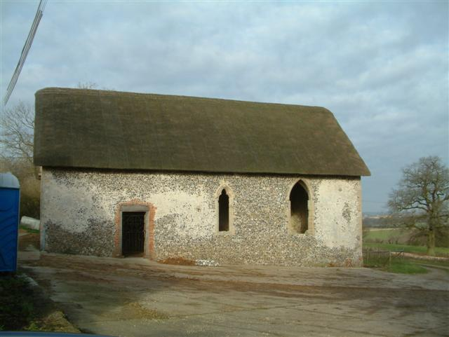 Former chapel of St Martin's Chapel, Manor Farm, Chisbury, Wiltshire, seen from the south. A 13th-century building that survived as a barn.